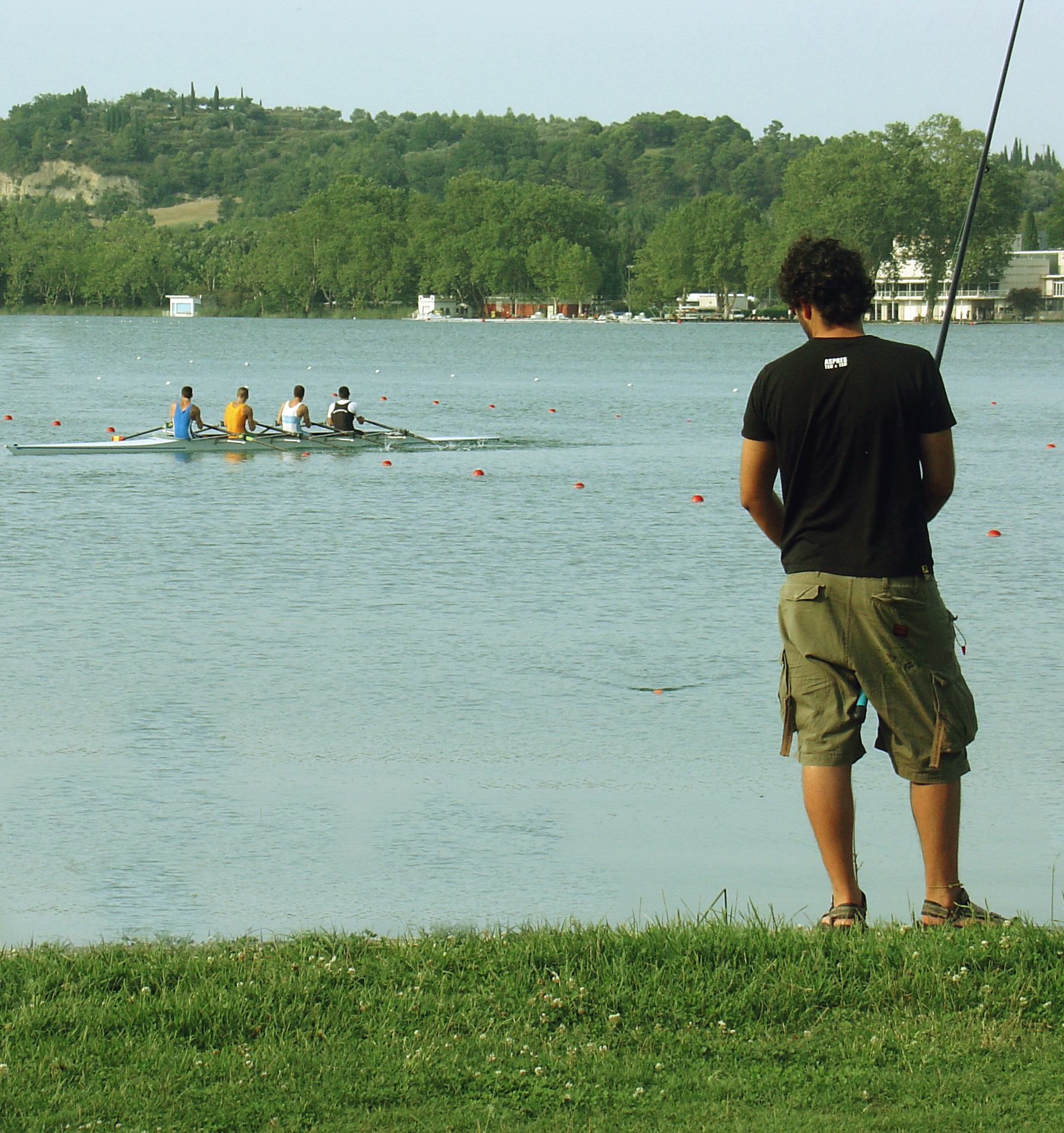 Spanish national rowing team training @ Banyoles lake.